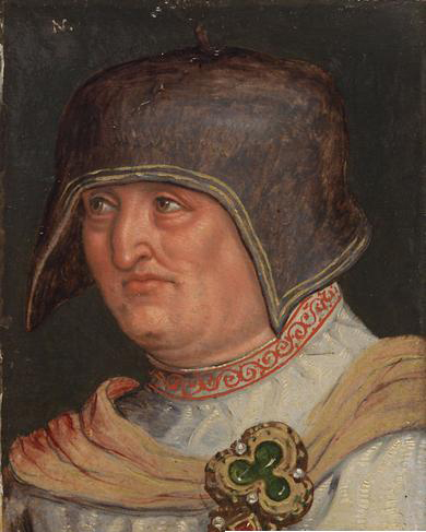 Boleslaus II the Short, of Silesia